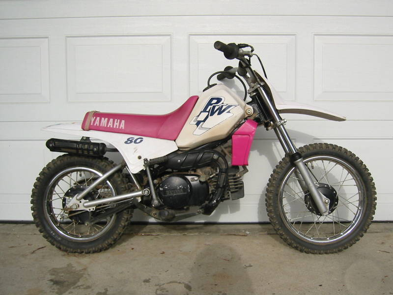 Yamaha PW80 a kids learner motorcycle.